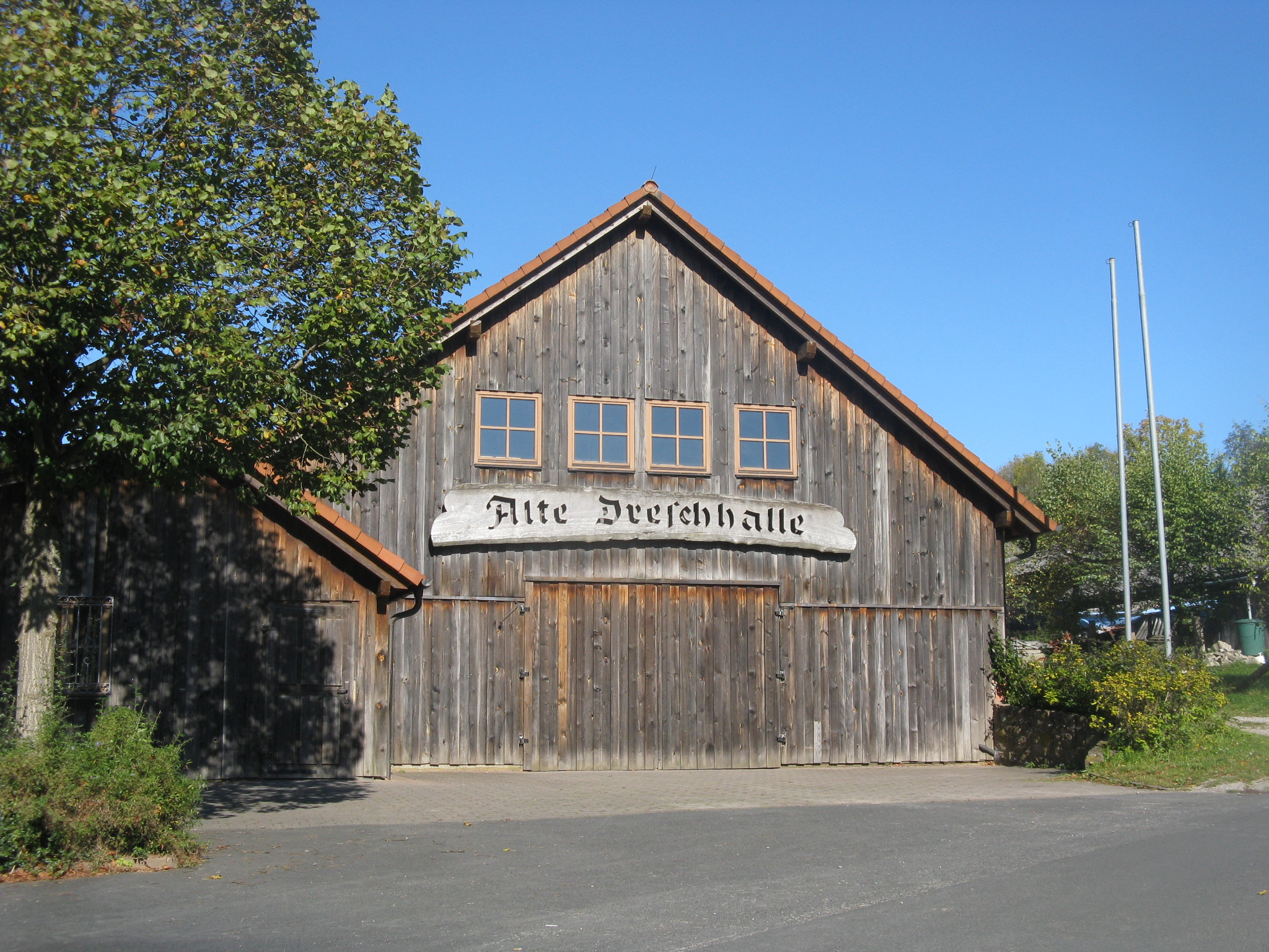 Wiesen (Unterfranken, Bavaria/Germany), old threshing barn